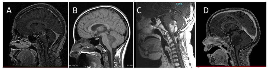 Classification of brainstem gliomas by MRI appearance. (A) Focal brainstem lesion on T1-weighted post-contrast sagittal image. (B) Dorsal exophytic brainstem lesion on sagittal non-contrast MRI. (C) Cervicomedullary lesion on T1-weighted post-contrast sagittal image. (D) Diffuse intrinsic pontine glioma lesion on T1-weighted post-contrast sagittal image.